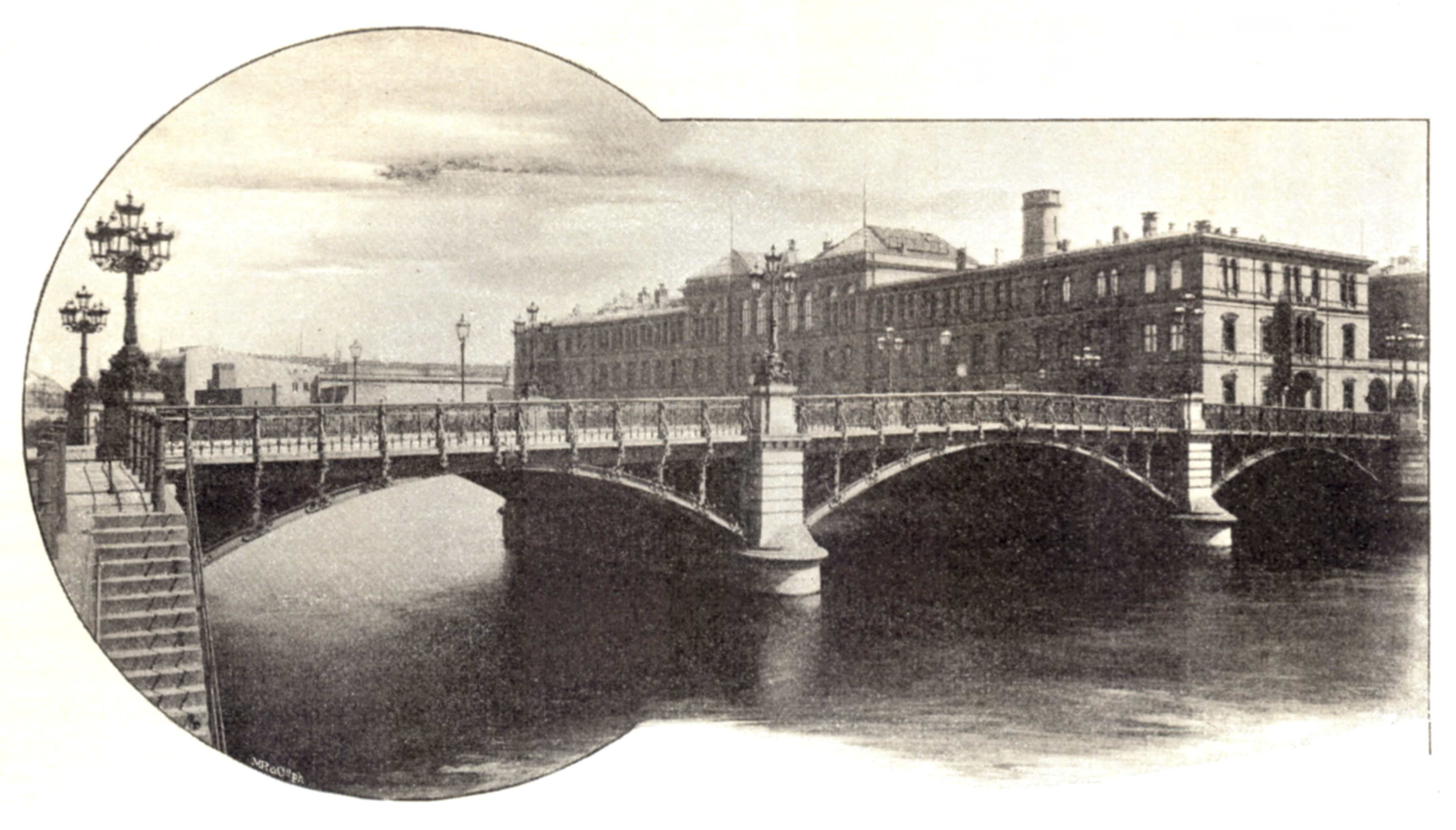 Berlin - Marschallbrücke around 1896